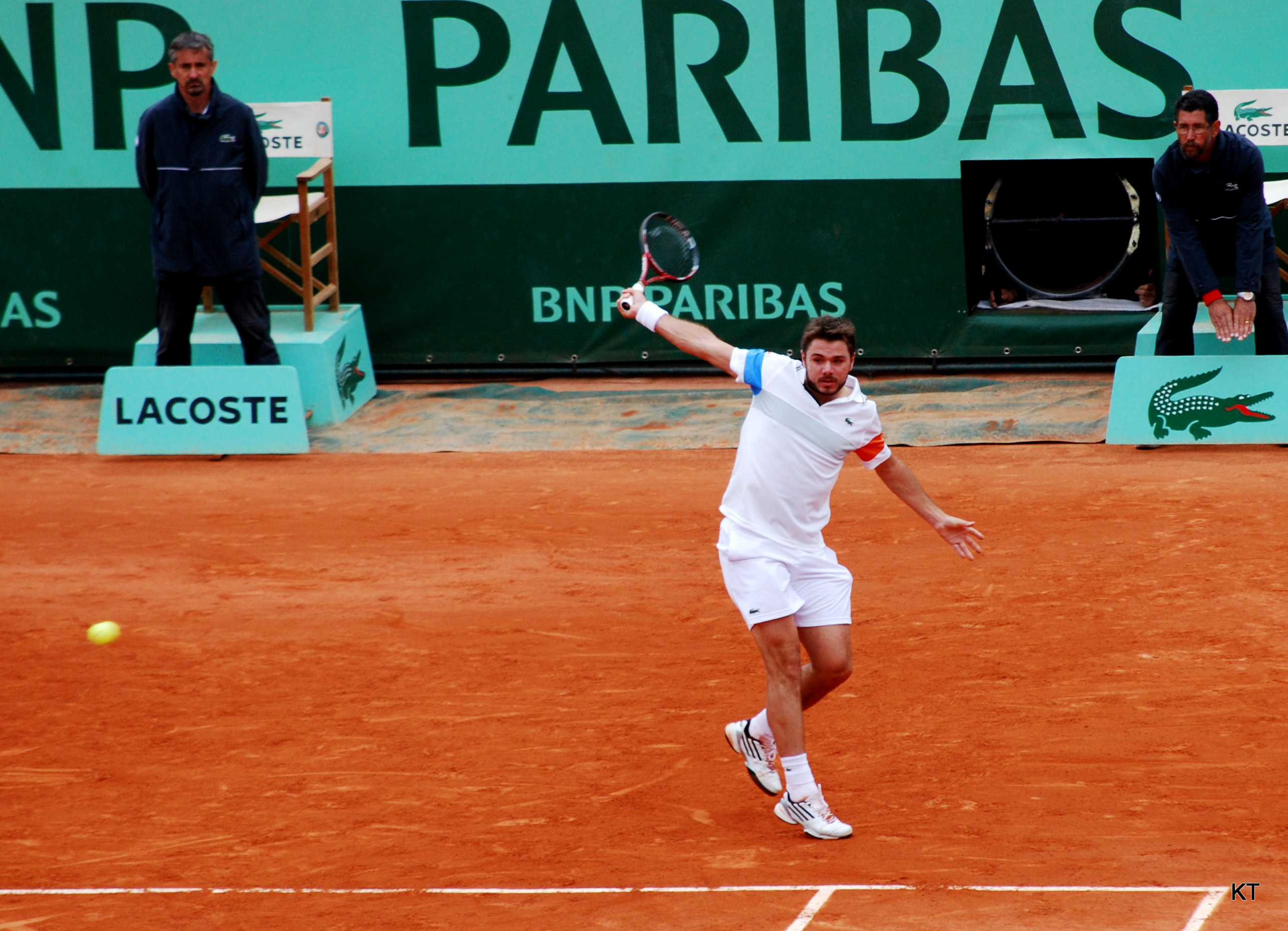 Stanislas Wawrinka during his third round match with Jo-Wilfried Tsonga at Roland Garros 2011. Wawrinka won 4-6, 6-7, 7-6, 6-2, 6-3.